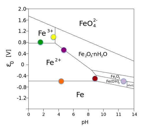 Pourbaix diagram for Fe.